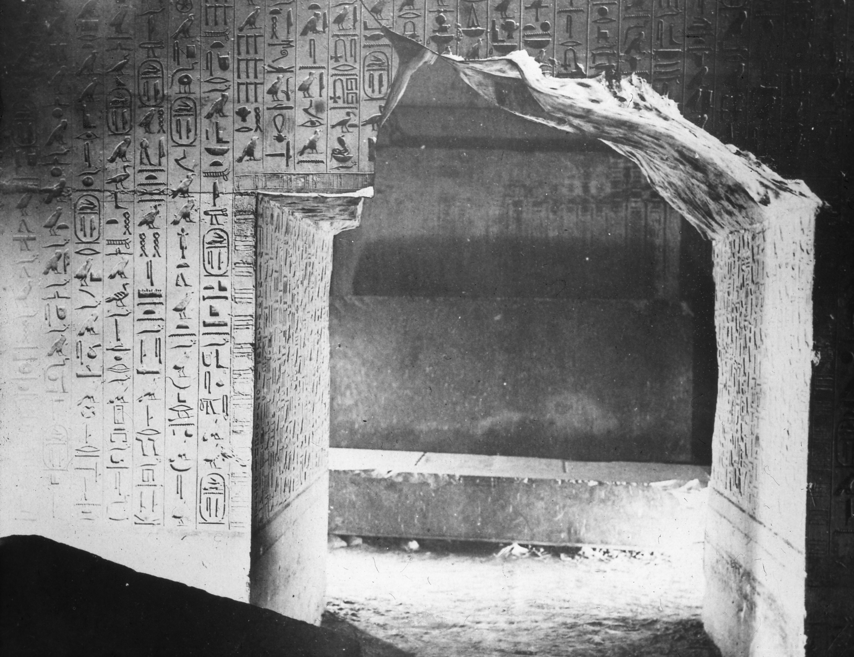 Lantern Slide Collection: Views, Objects: Egypt. Sakkara [selected images]. View 17: Burial Chamber. Pyramid of Unas. 5th Dyn. Sakkara., n.d. Brooklyn Museum Archives (S10-08 Sakkara, image 9643).